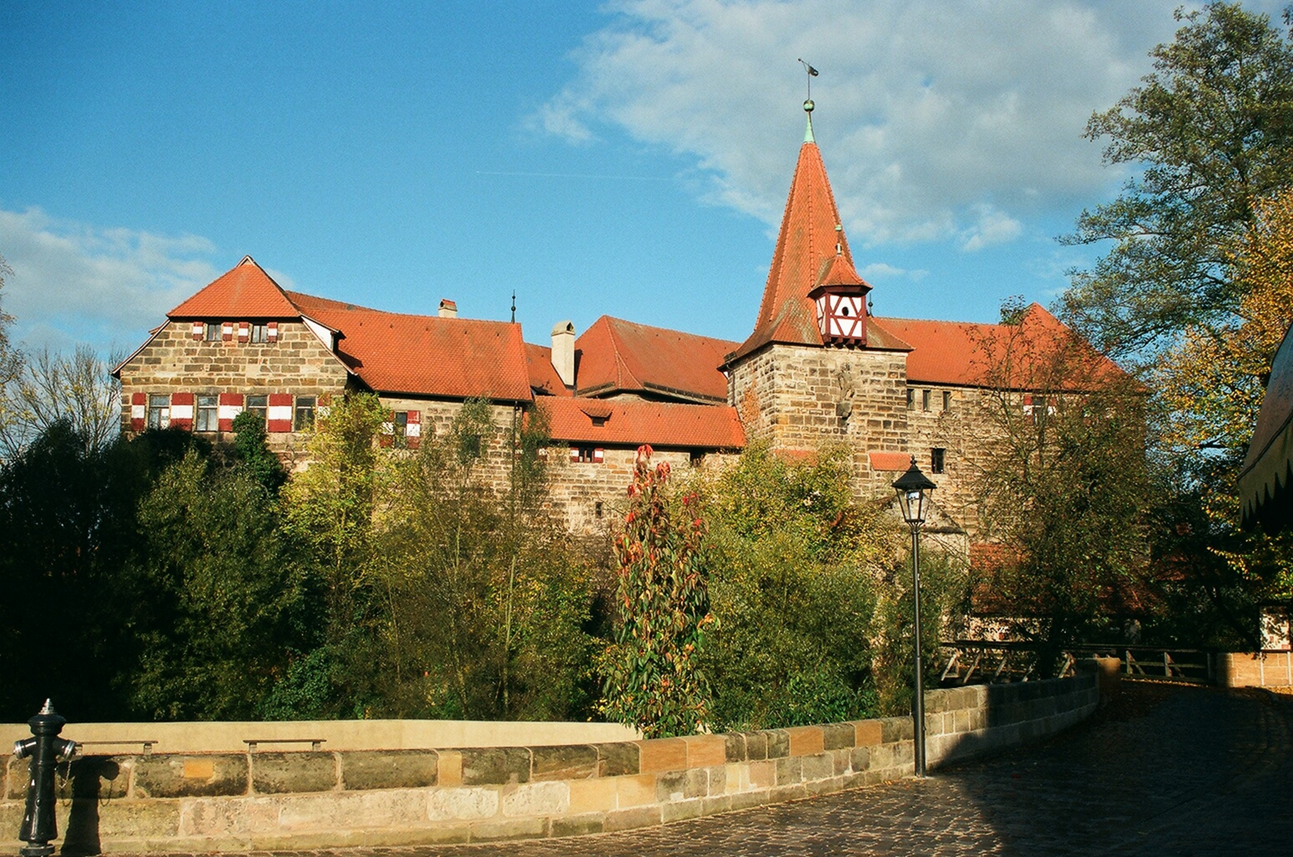 Lauf an der Pegnitz, the castleThis is a photograph of an architectural monument.